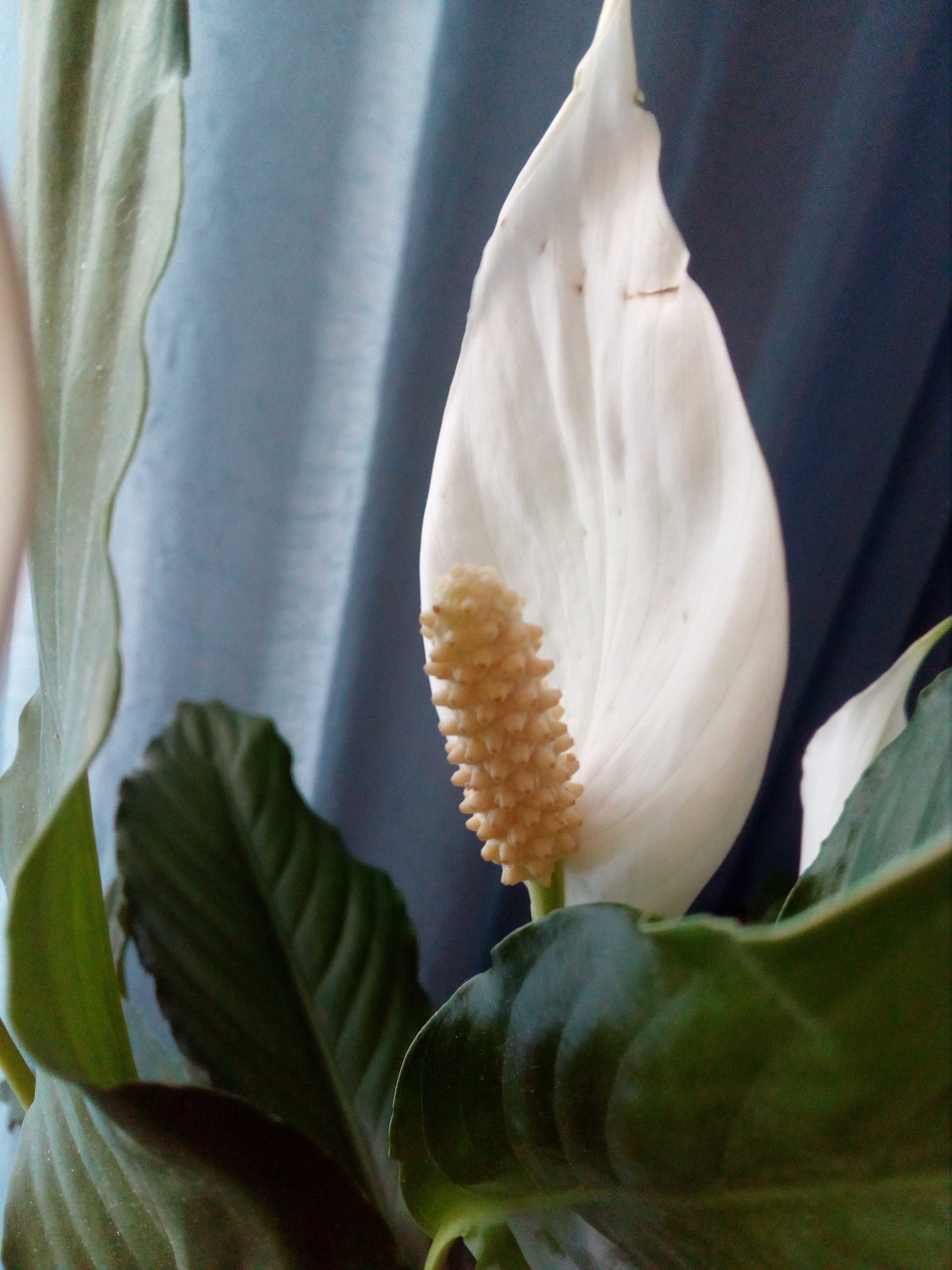 Spathiphyllum